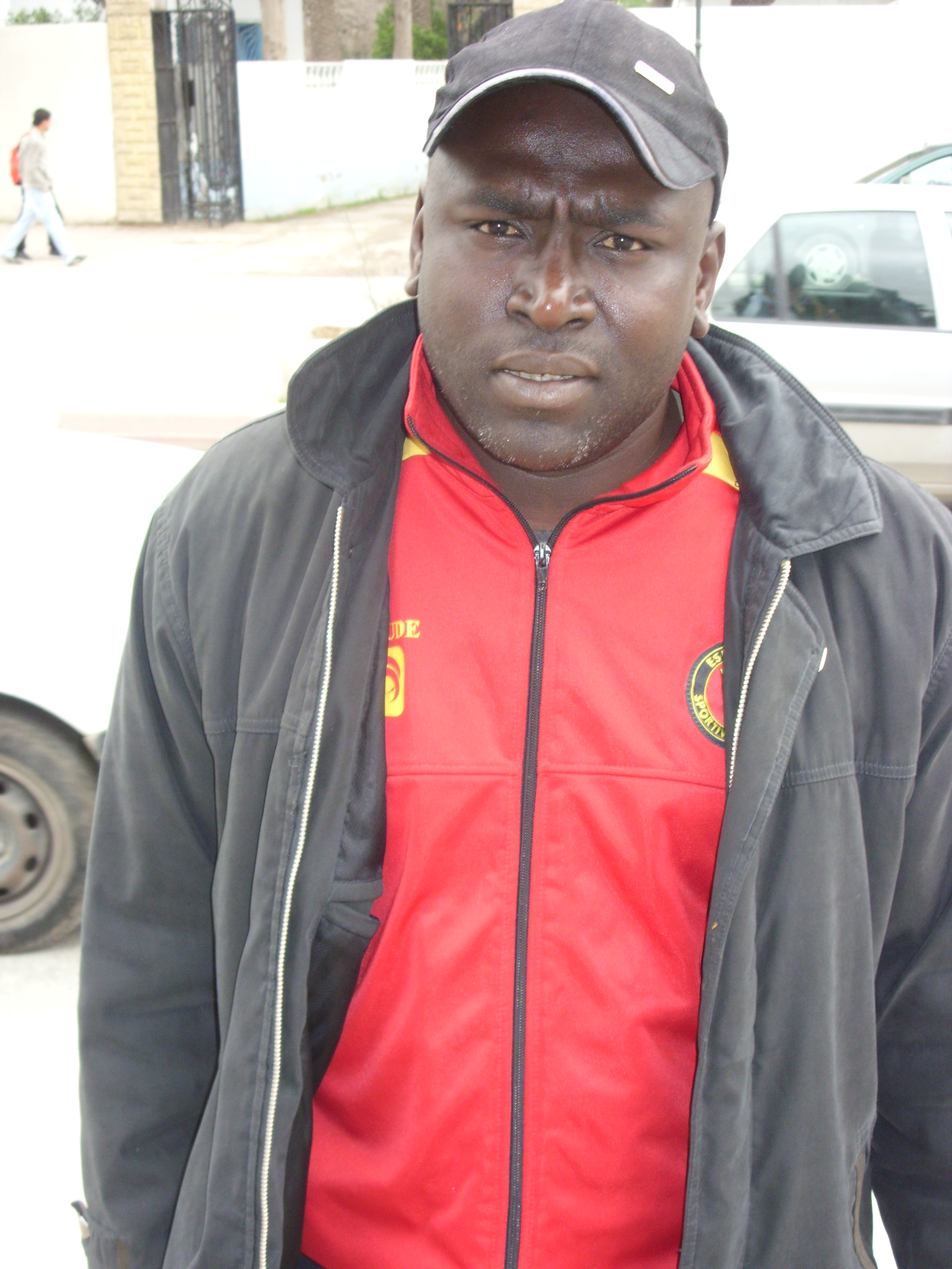 Ayadi Hamrouni (1972- ), former tunisian international football player